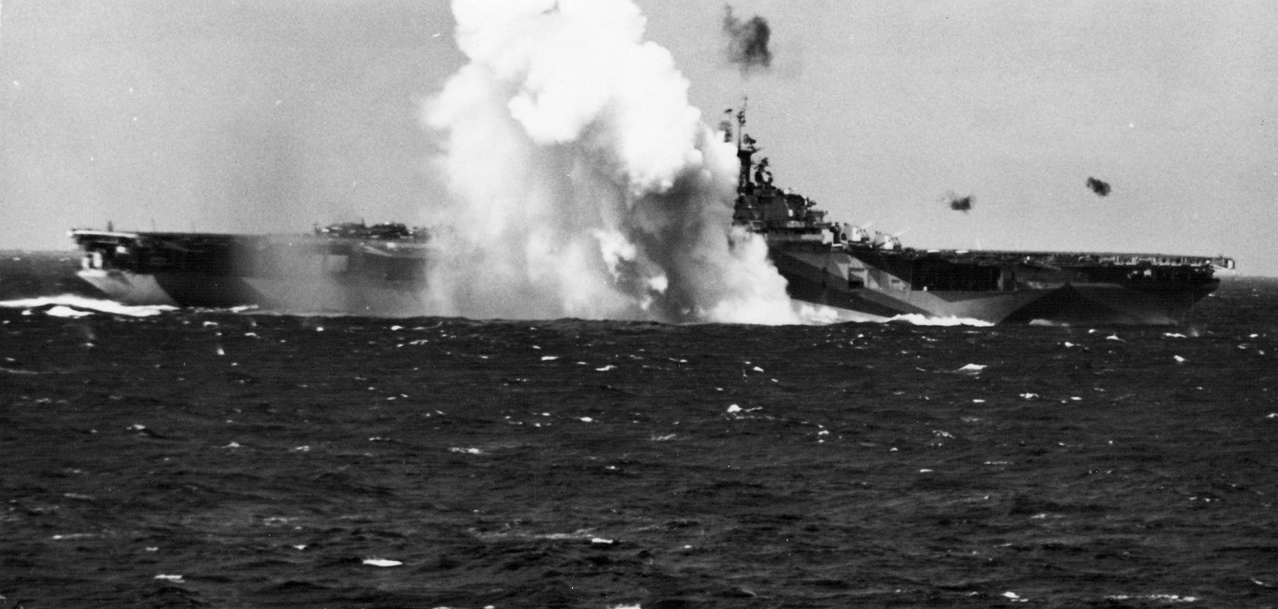 A kamikaze suicide plane splashes near the U.S. Navy aircraft carrier USS Ticonderoga (CV-14) underway off the Philippines.